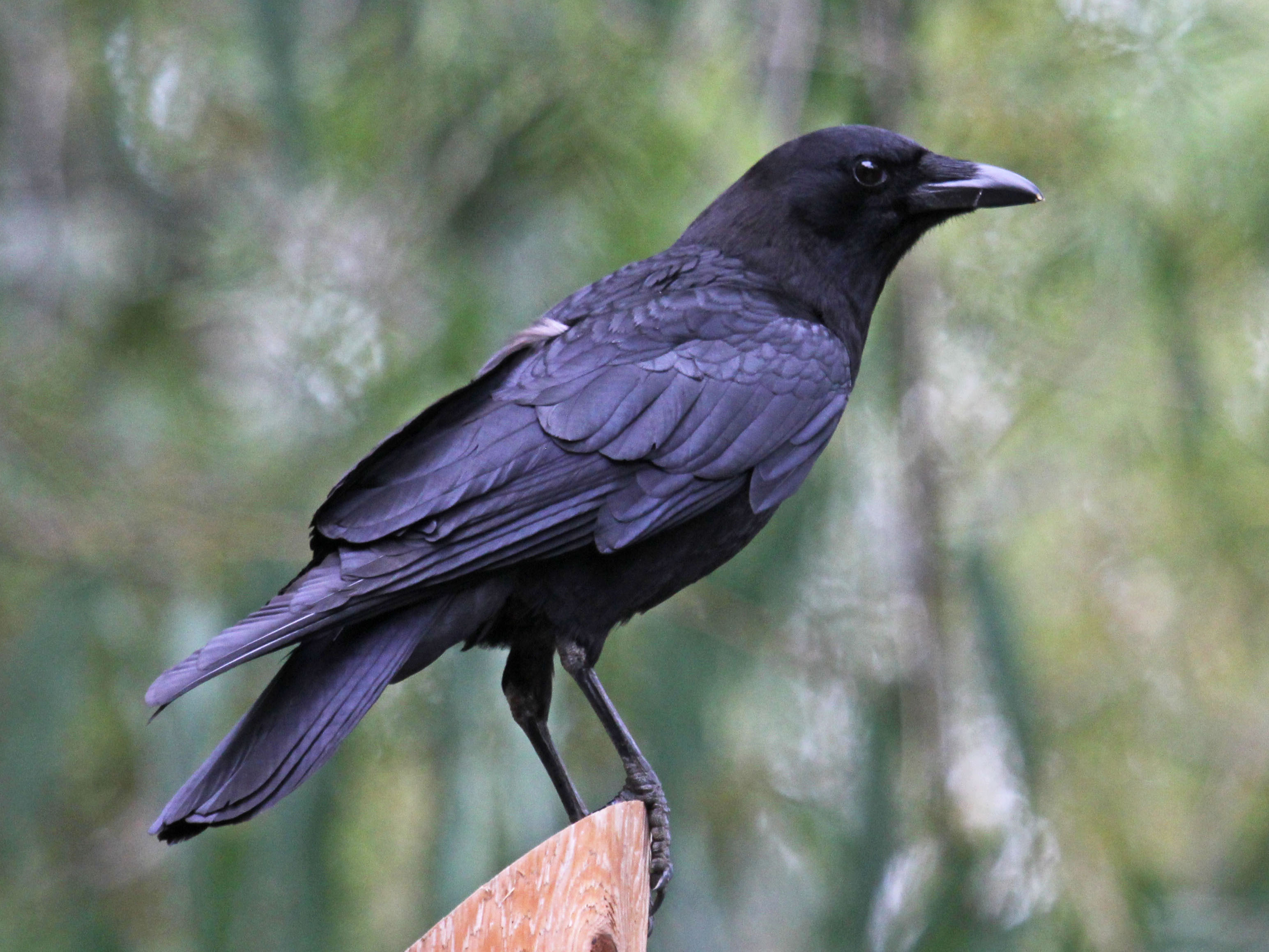 American Crow (Corvus brachyrhynchos) - San Diego, California